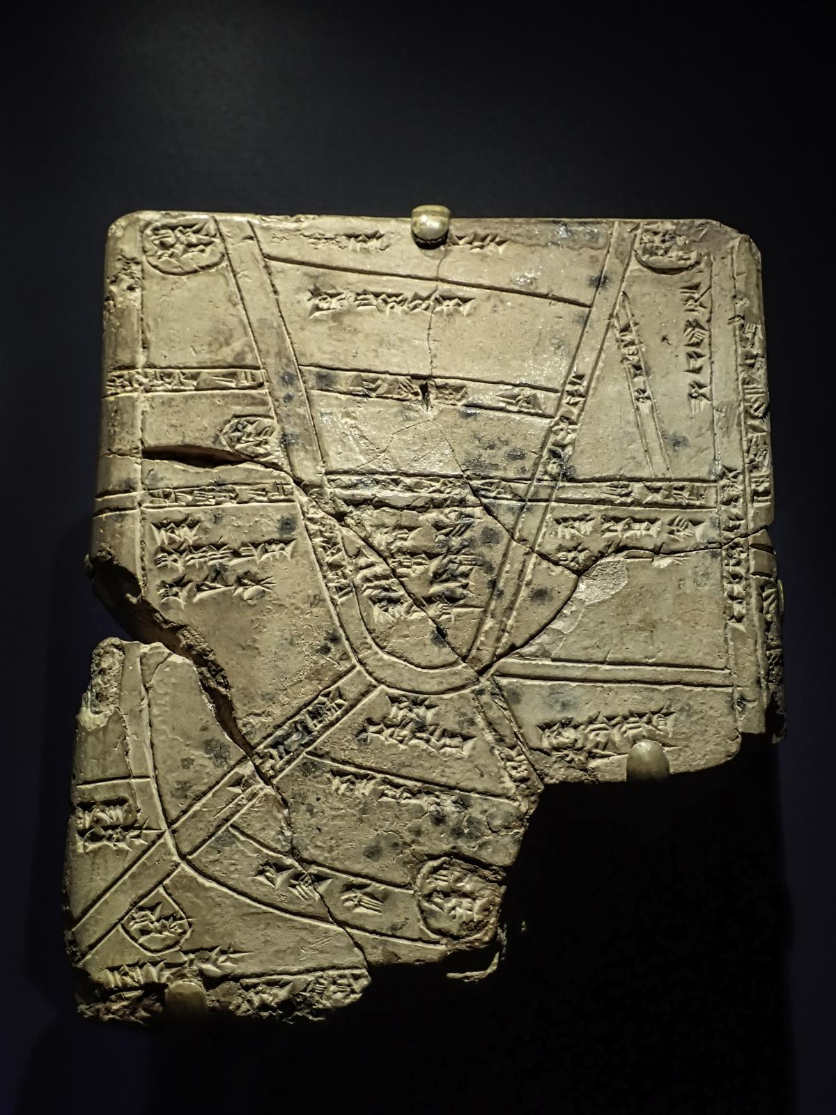 Babylonian cuneiform tablet with a map from Nippur 1550-1450 BCE. Kassite period [1] The "Indiana Jones and the Adventure of Archaeology" exhibit also included real artifacts excavated in regions visited by the ficitional Indiana Jones in the feature film series. These artifacts were recovered from expeditions by researchers from the University of Pennsylvania who provided them to National Geographic for the exhibition. Photographed at the "Indiana Jones and the Adventure of Archaeology" exhibit at the National Geographic Museum in Washington D.C.